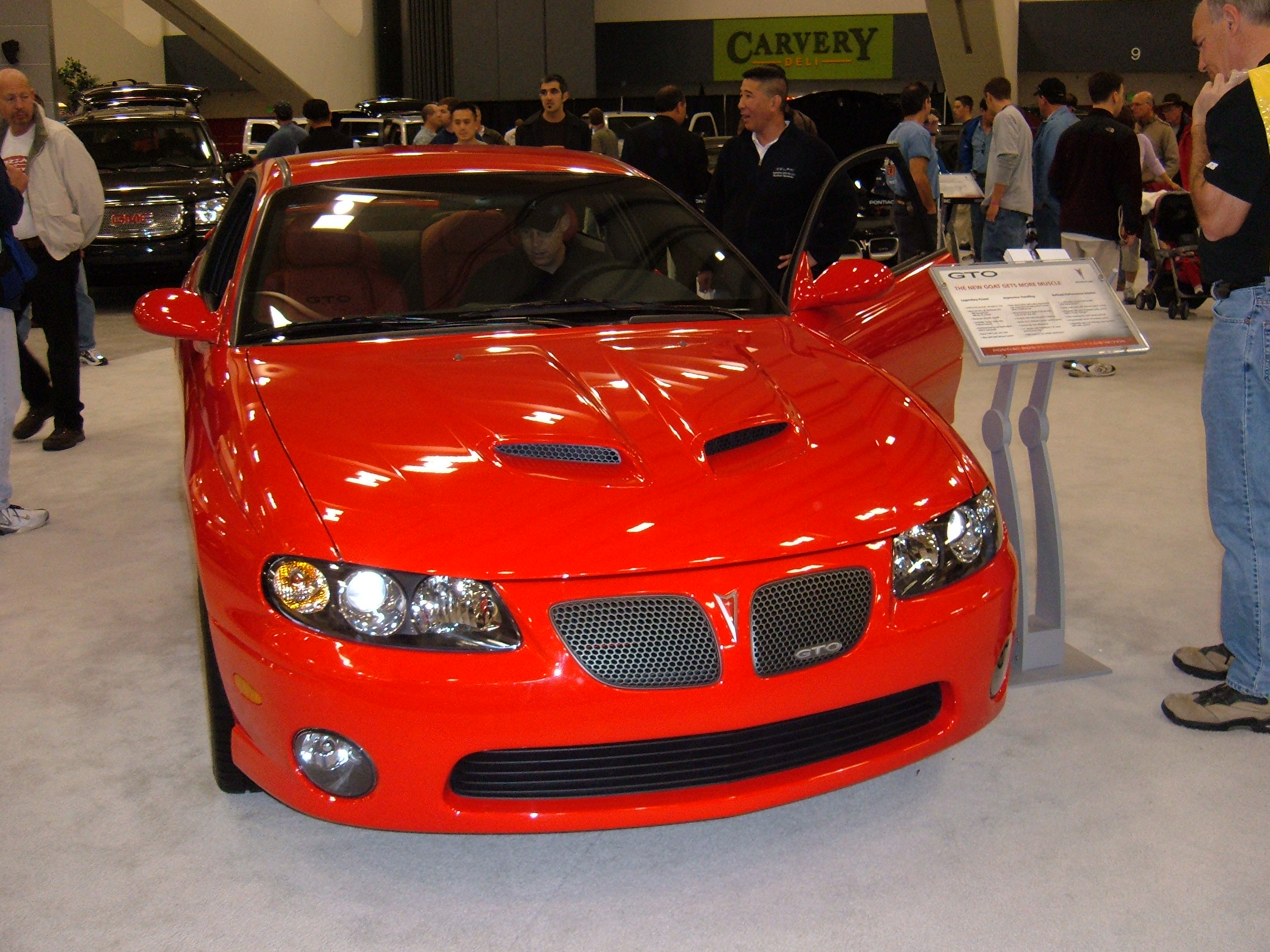 A 2005 Pontiac GTO at the 2004 San Francisco International Auto Show.